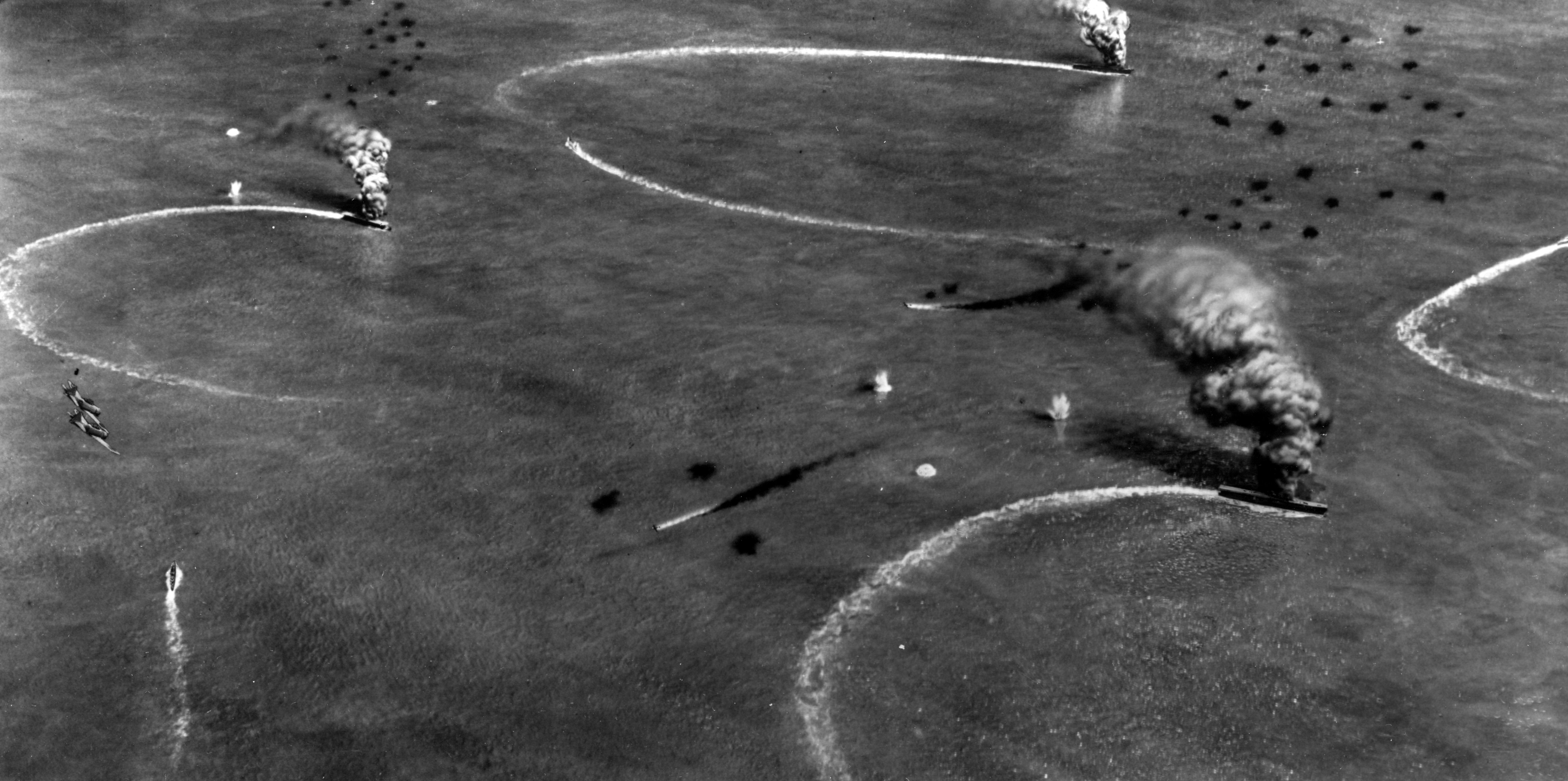 Diorama by Norman Bel Geddes, depicting the attack by USS Enterprise (CV-6) and USS Yorktown (CV-5) dive bombers on the Japanese aircraft carriers Akagi, Kaga and Soryu in the morning of 4 June 1942. The diorama was created during World War II on the basis of information then available. It is therefore somewhat inaccurate in scope and detail. This angle of view depicts Soryu (attacked by Yorktown aircraft) in the middle distance, with Kaga and Akagi (both attacked by Enterprise aircraft) as the closer two burning ships.